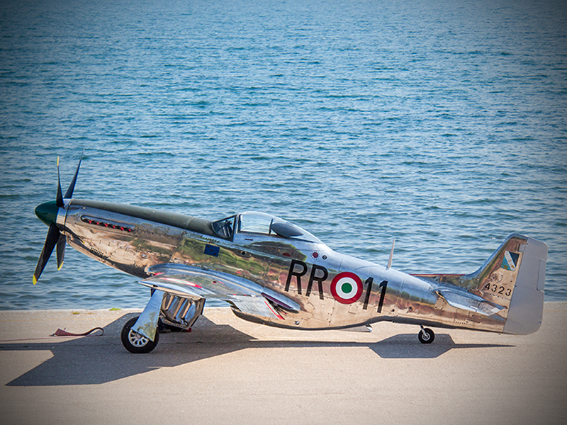 The survivor F-51 D (MM4323 code RR-11) of Italian Air Force Museum